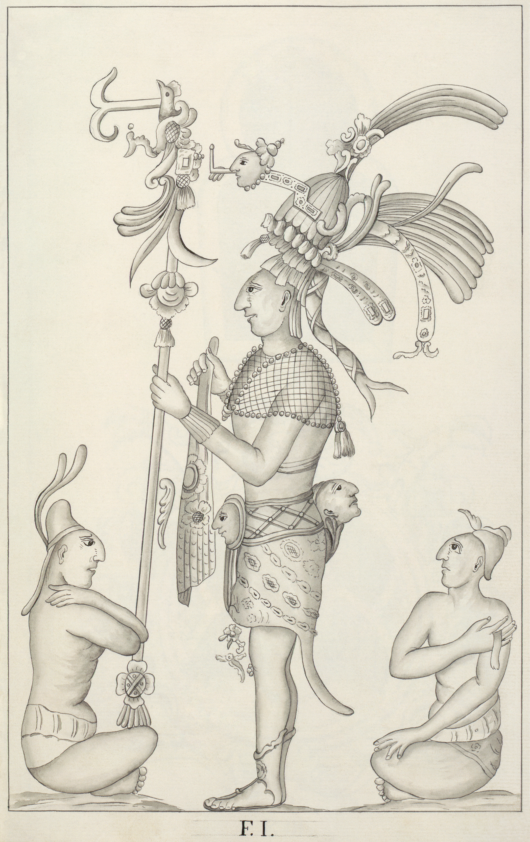 Stucco relief at the Palace, Maya ruins at Palenque, as drawn by Ricardo Almendáriz at the time of the Del Rio expedition in 1787. On the right, a recent photo of the same relief.